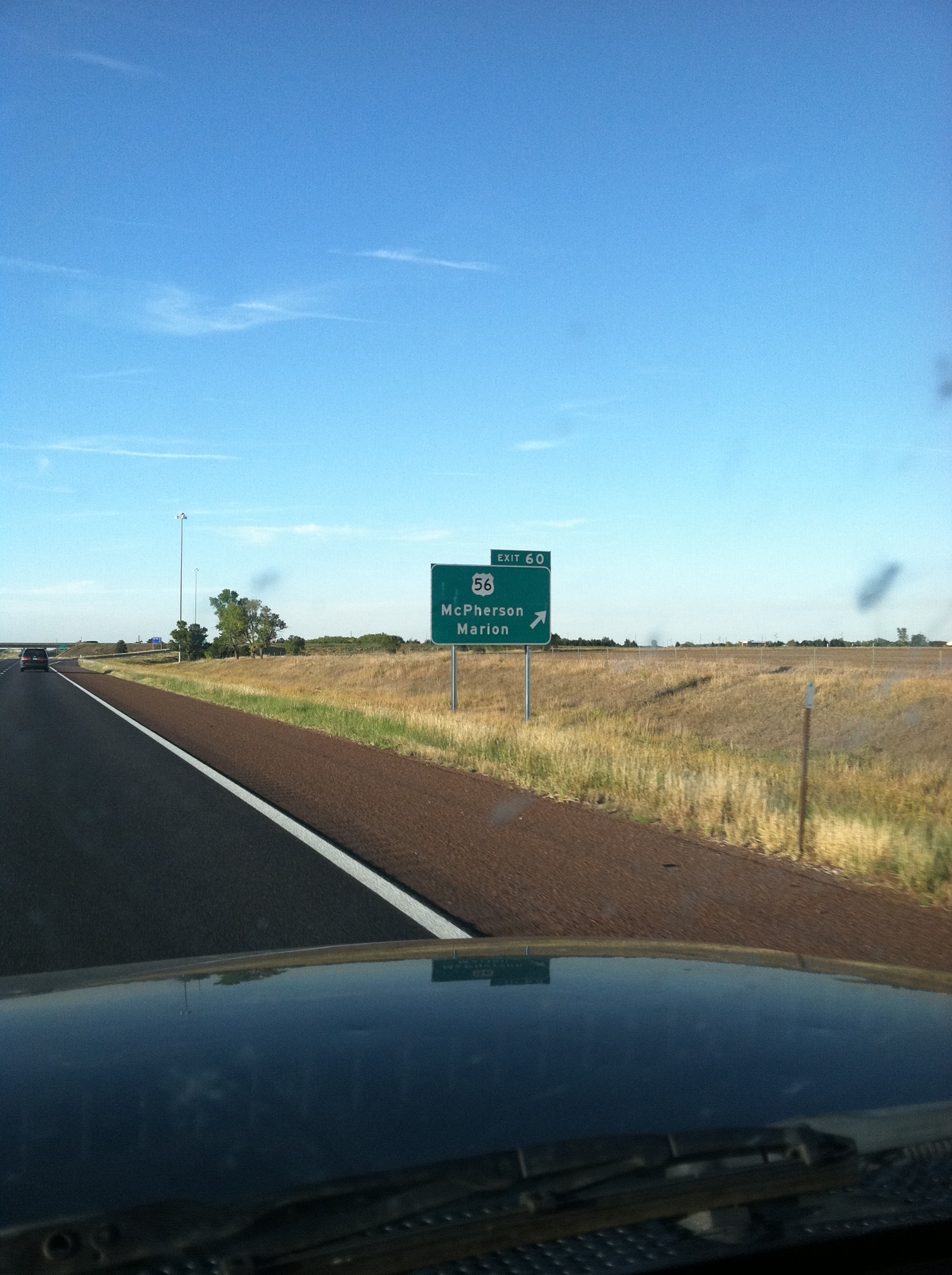 The sign at Interstate 135 exit 60 near McPherson, Kansas.